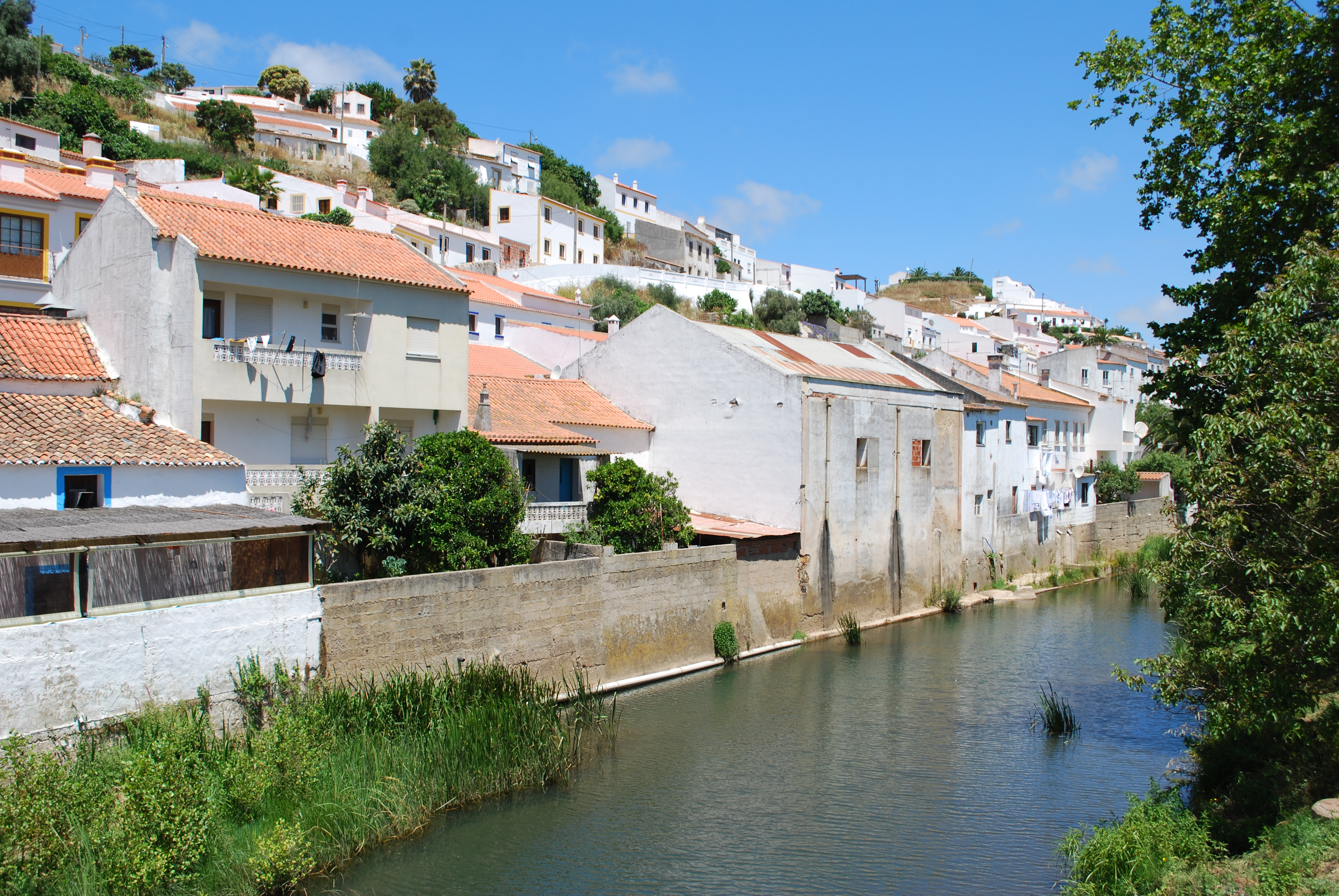 This file was uploaded for Wiki Loves Monuments in Portugal with the unique identifier 97028747.